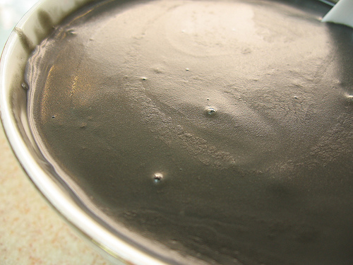 Cantonese Black Sesame tongsui dessertCantonese Black sesame tongsui dessert